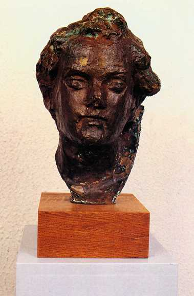 Sculpture by Halepas, image from the Museum of Contemporary Art, Florina, West Macedonia, Greece